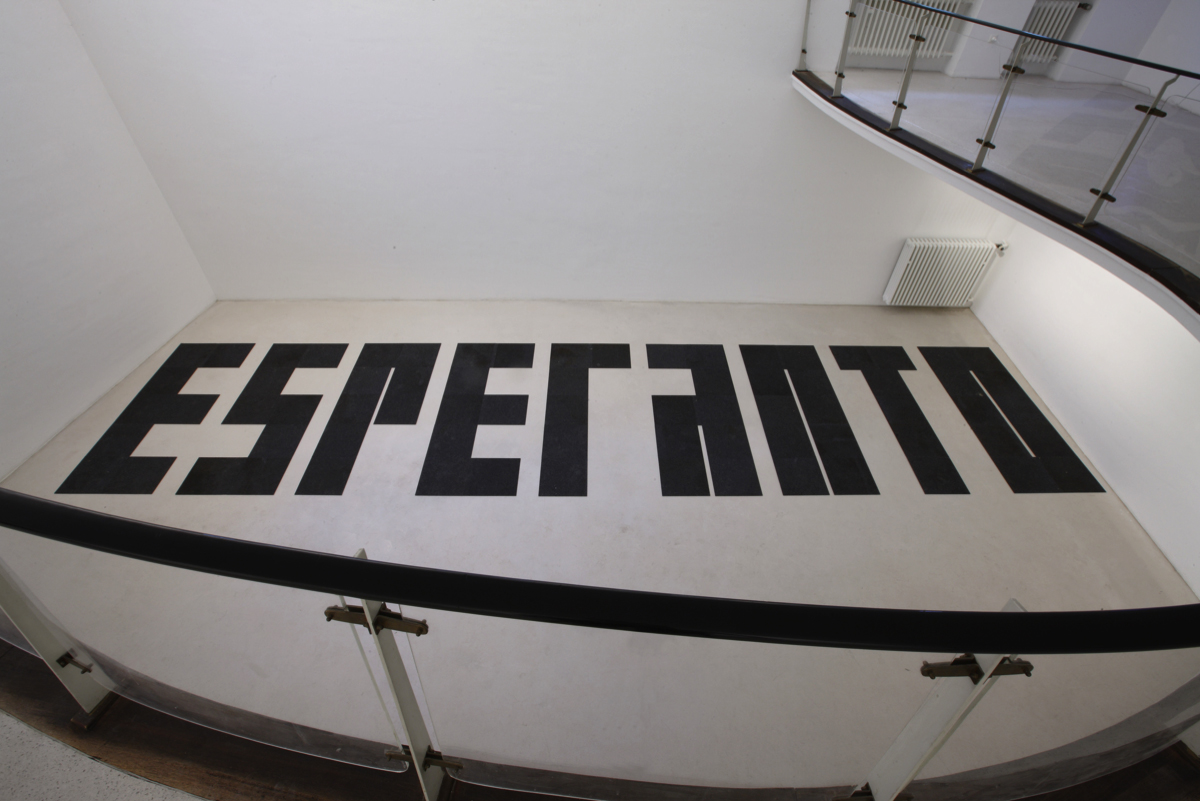 Boaz Kaizman Esperanto, 2009 Teppichfliesen / Carpet tiles 1150 x 250 cm Installationsansicht artothek, Köln, 2009 Foto: Alistair Overbruck